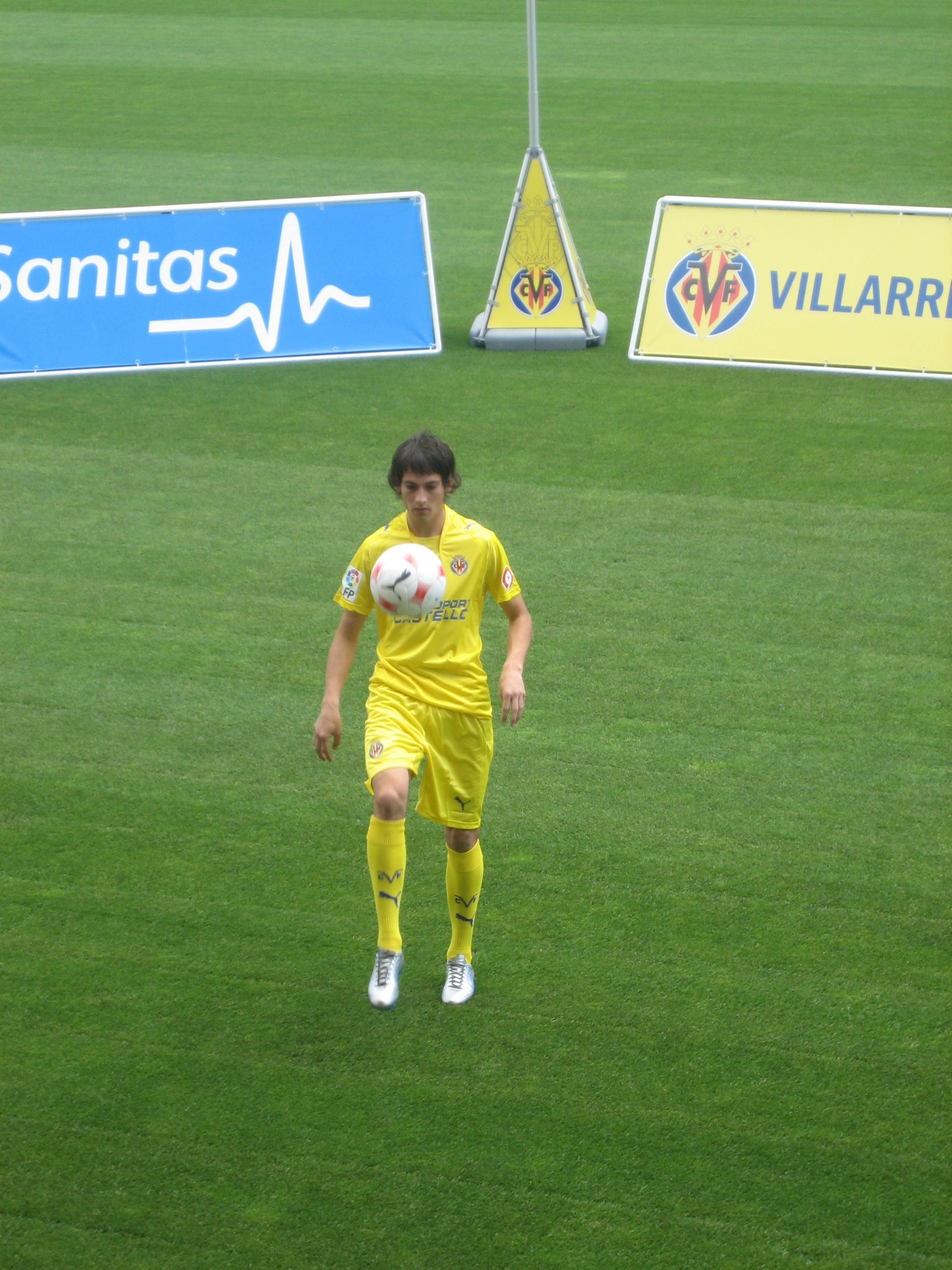 Robert Flores presentation in Ciutat Esportiva del Villarreal CF after been signed by Villarreal CF